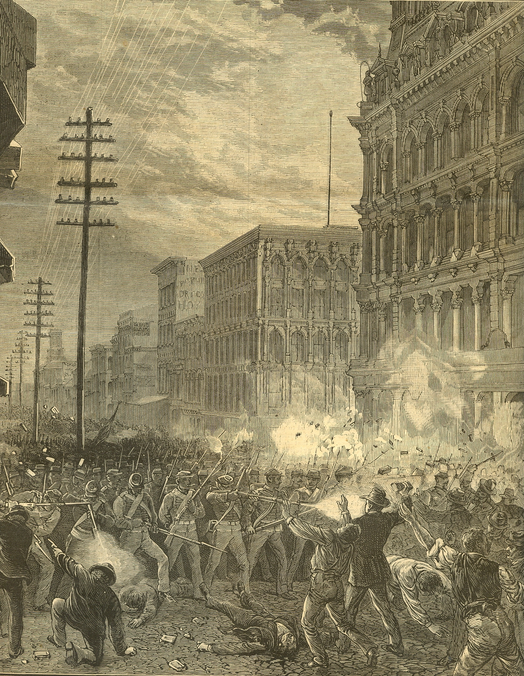 "Sixth Regiment Fighting its way through Baltimore", engraving. Fighting occurred during the Great railroad strike of 1877.